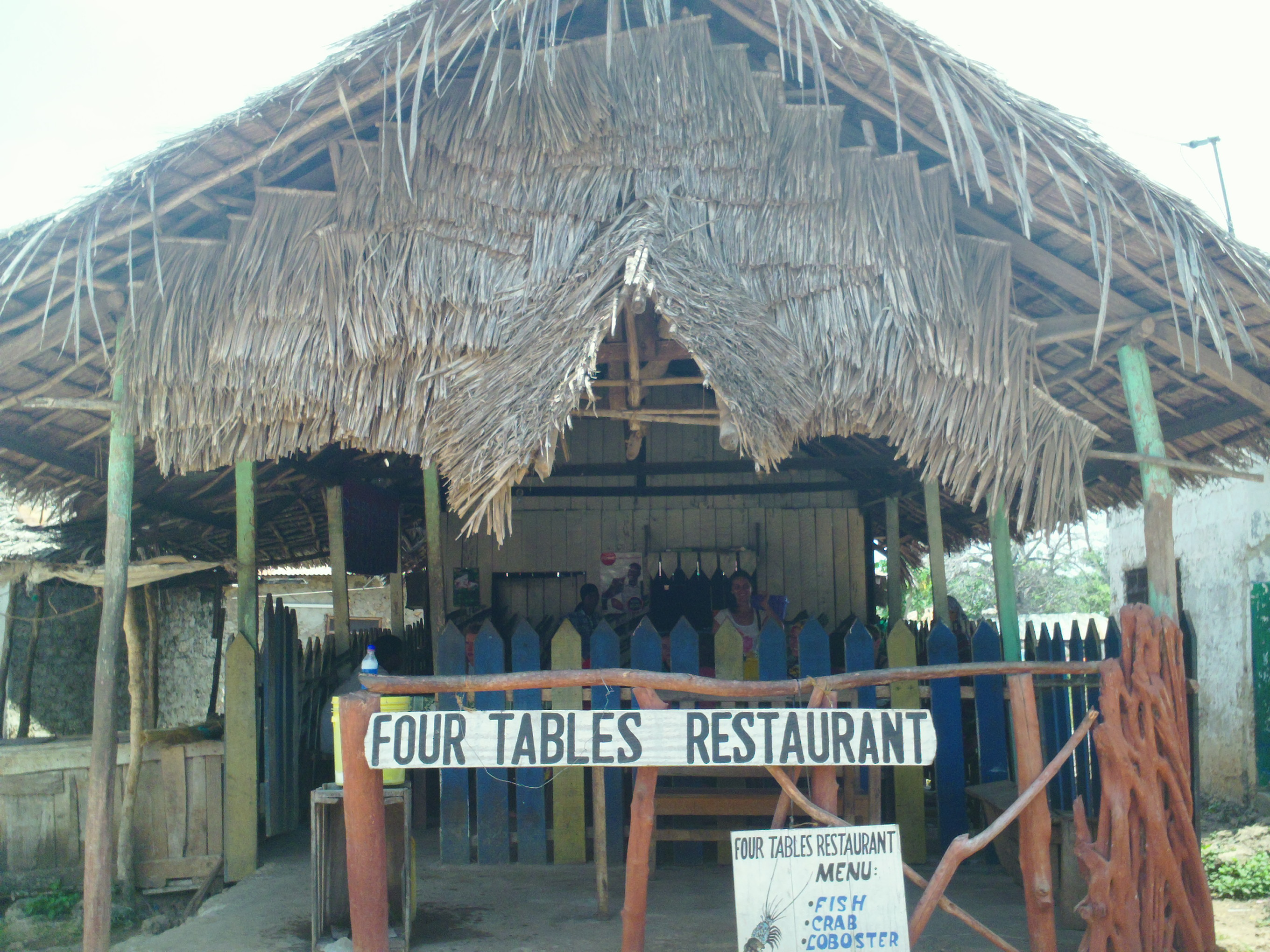 Four Tables Restaurant